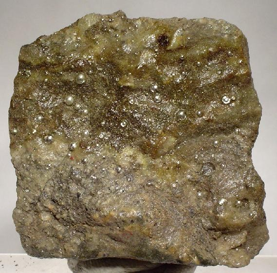 Mercury Locality: Sonoma County, California, USA (Locality at ) An extremely rich ore specimen liberally covered with silver droplets of native mercury (quicksilver) to 1 mm. Mercury is the only recognised mineral that is found as a liquid at room temperature. Cinnabar alters to native mercury in the oxidized zone of deposits. Native mercury is also quite rare. VERY RARE IN SPECIMEN FORM and a VERY difficult element to obtain in its pure form for an elements suite in a collection! The specimen has been sprayed with clear lacquer to stabliize the mercury, which is a standard procedure for mercury. THIS SPECIMEN CAN ONLY BE SHIPPED TO THE UNITED STATES, DUE TO THE POSSIBILITY OF THE MERCURY DROPLETS COMING OFF. 3.7 x 3.6 x 2.4 cm